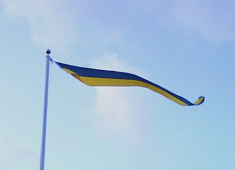 A swedish pennon.